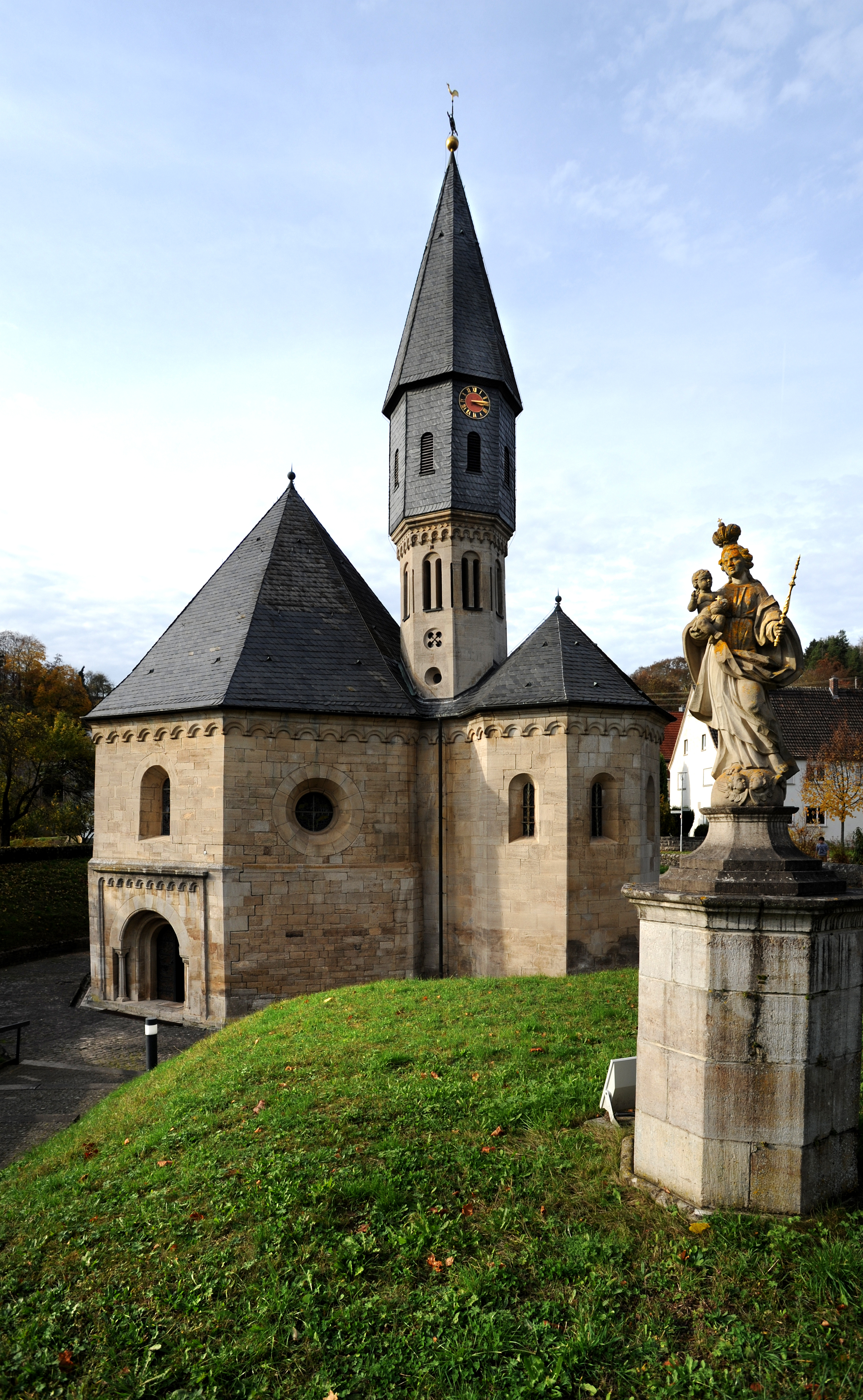 Grünsfeld, a nice town in the Main-Tauber-Kreis.